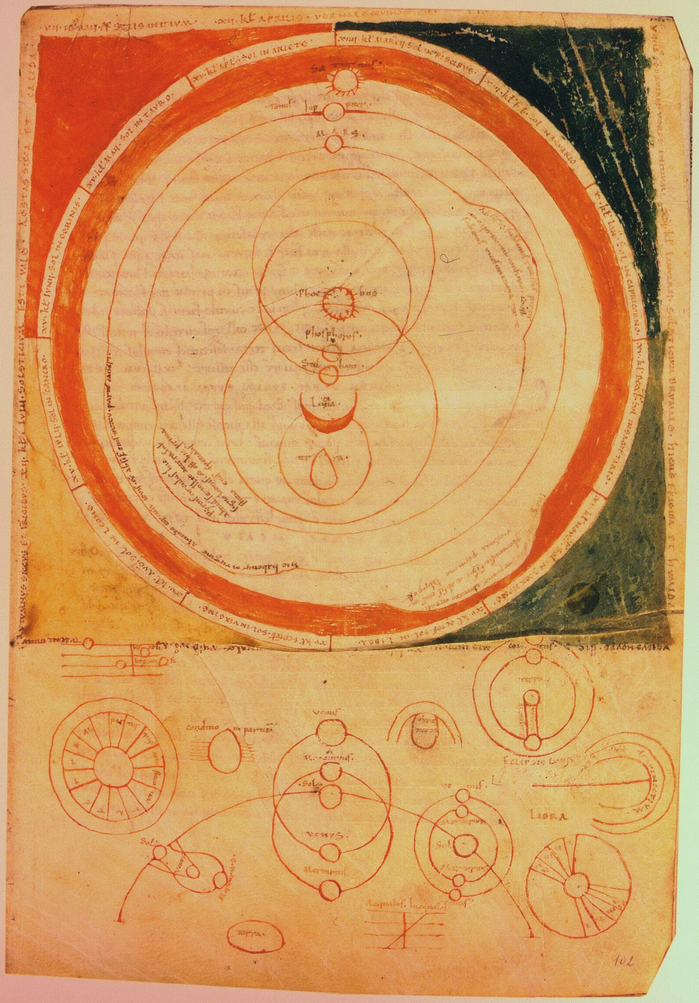 The cosmographic scheme of „De nuptiis Philologiae et Mercurii“ in the manuscript Florence, Biblioteca Medicea Laurenziana, San Marco 190, fol. 102r.